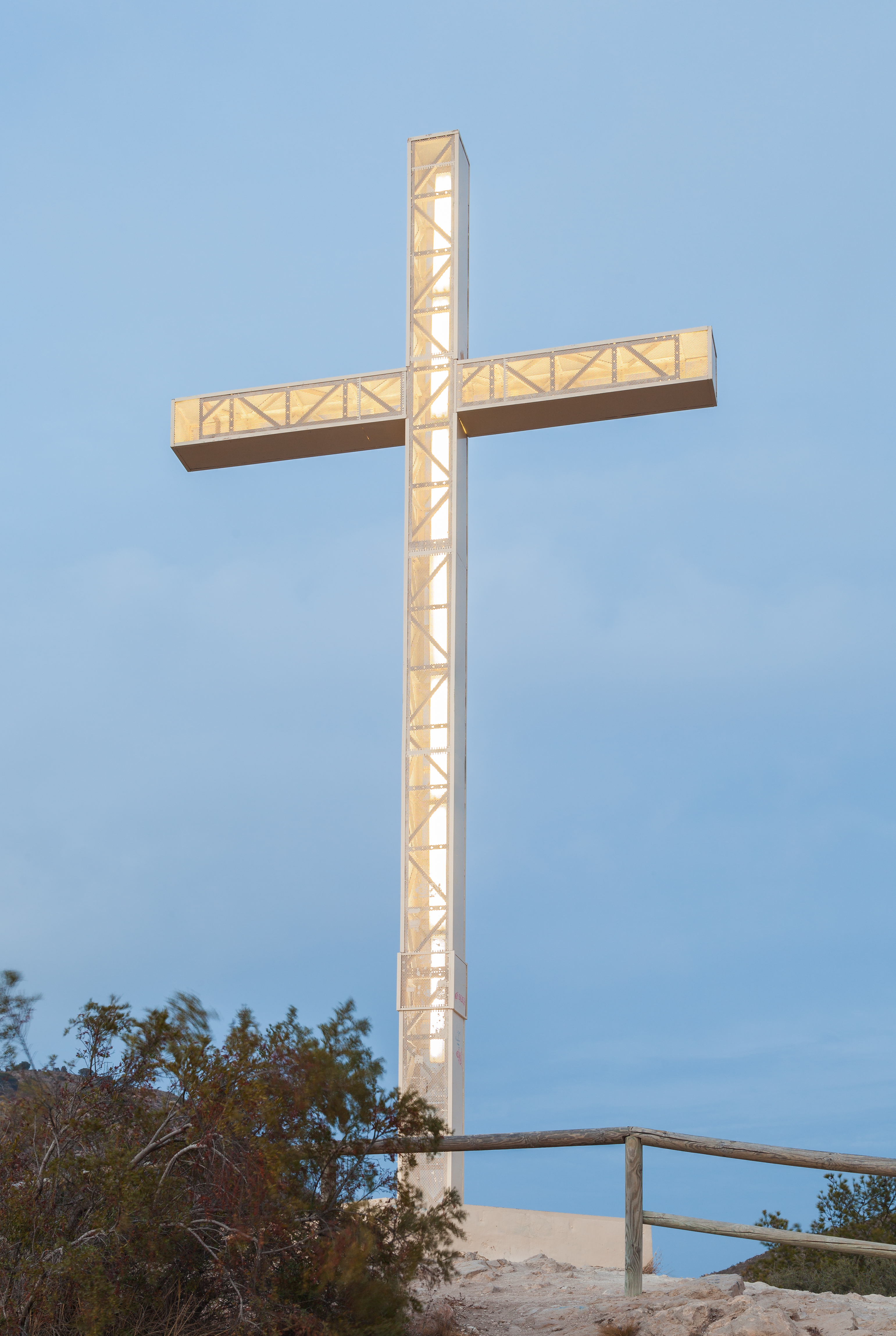 Cross of Benidorm, Spain